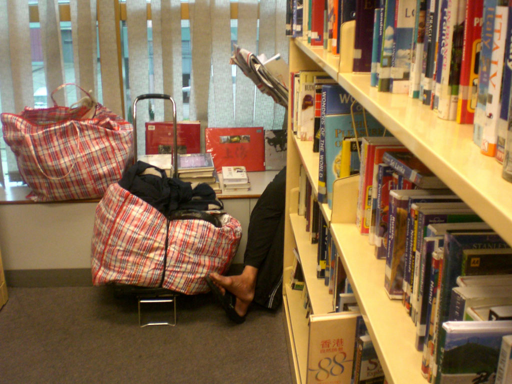 Somewhere a library without cloakroom. Homeless person reading in the Tsim Sha Tsui Public Library, Hong Kong.